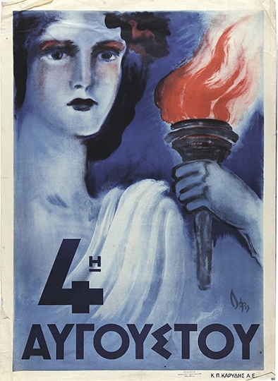 Greek propaganda poster of Ioannis Metaxas' dictatorship, 1936.